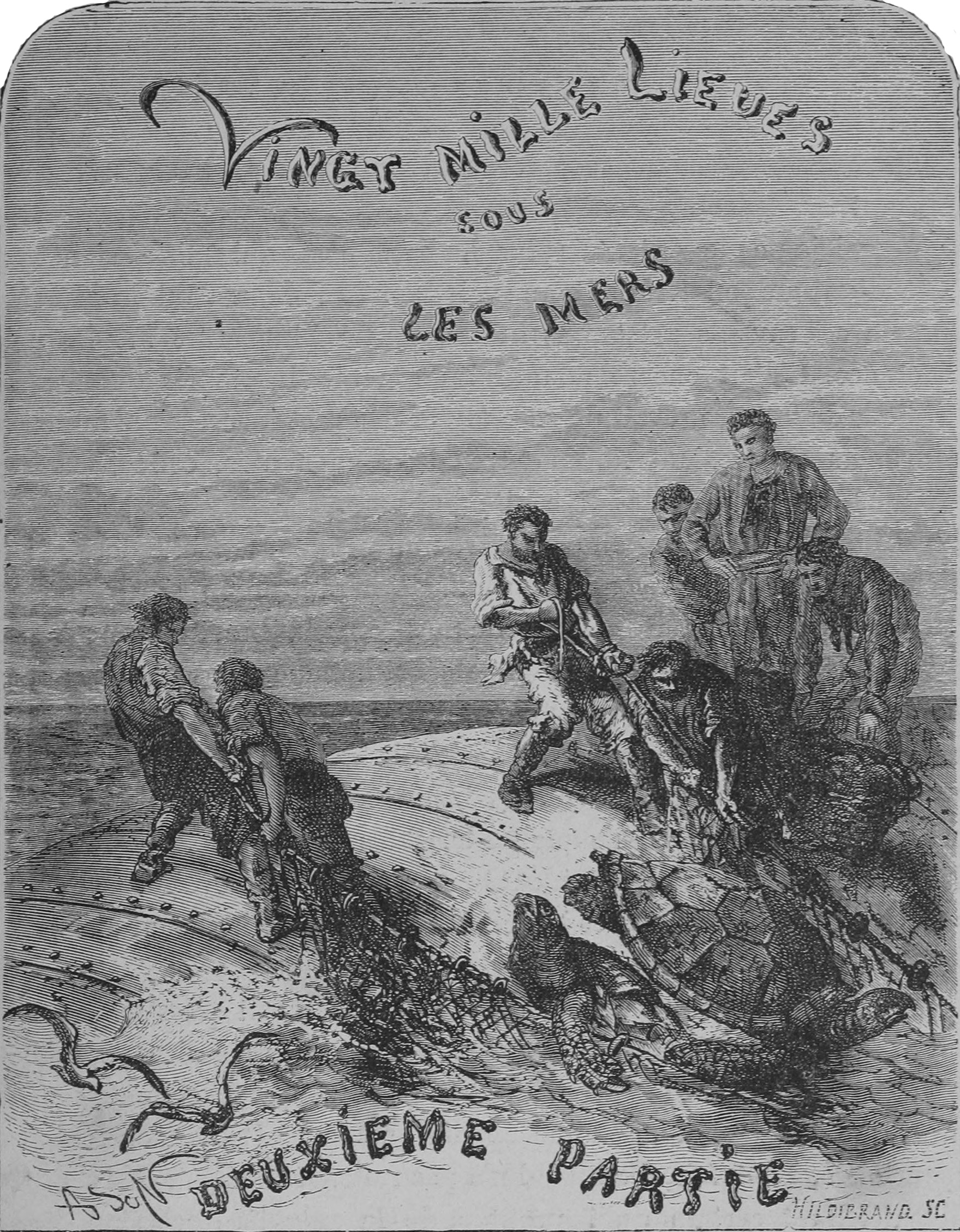 Image from scan vingtmillelieue00vern_orig_0211.jp2